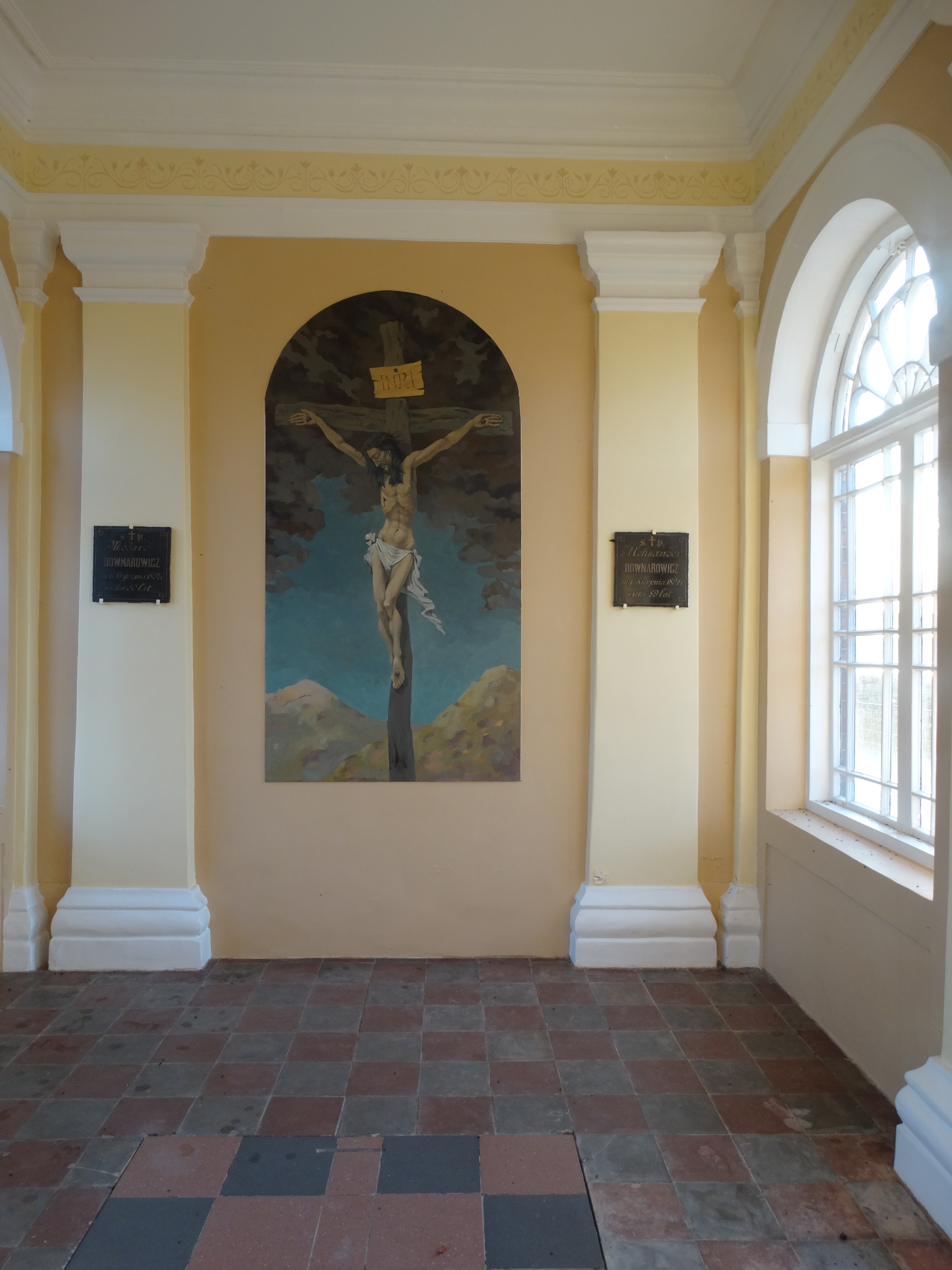 Churchyard chapel (Grób Downarowiczow), Kulva, Jonava district, Lithuania